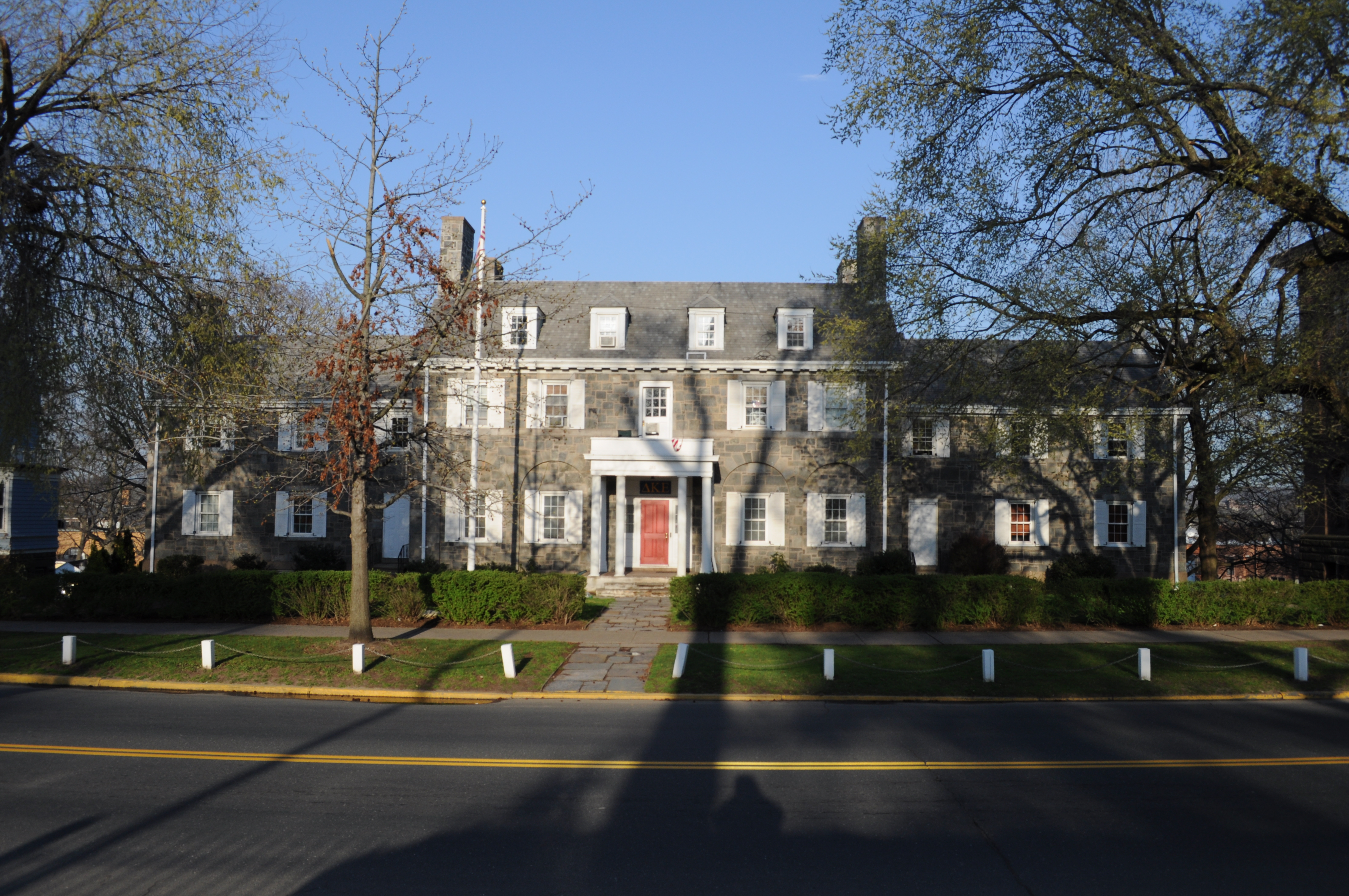 Delta Kappa Epsilon house, Wesleyan University, Middletown, Connecticut, USA.